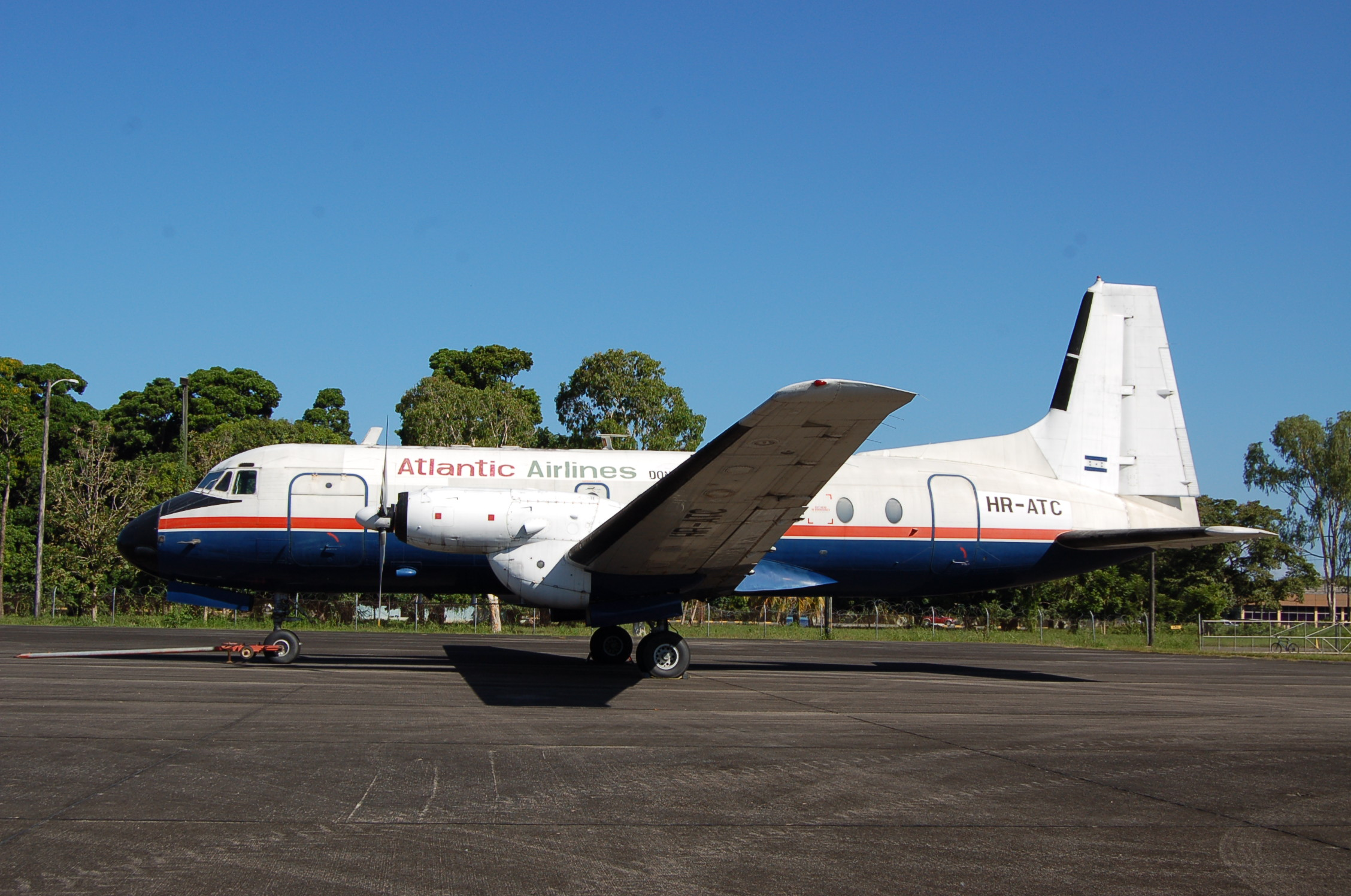 Avro 748 of Atlantic Airlines (Honduras) at La Ceiba,Honduras 03/03/11.